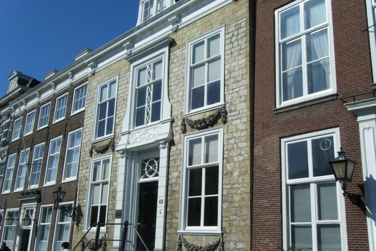 Street: Dunne Bierkade City: The Hague Country: The Netherlands